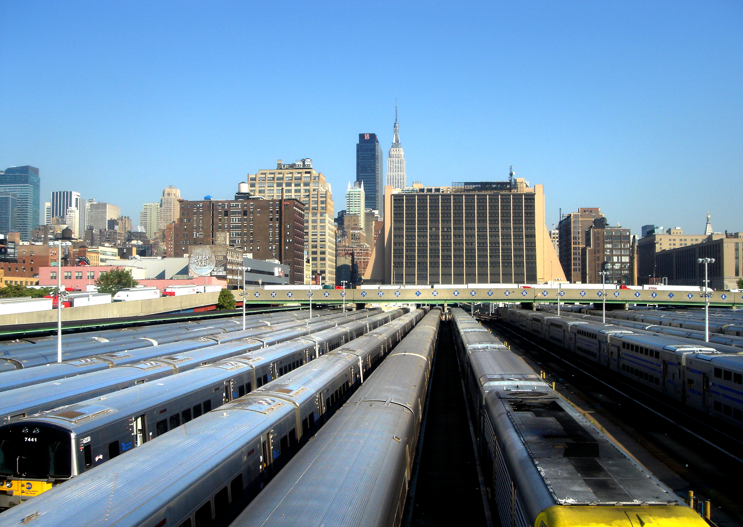 The West Side Yard in Manhattan. Tracks leaving Penn Station to the west. The tracks to the right go to West Side Yard. The track on the left goes under the yard and north onto the west side of Manhattan, and the center tracks go to the North River Tunnels under the Hudson River to Secaucus Junction